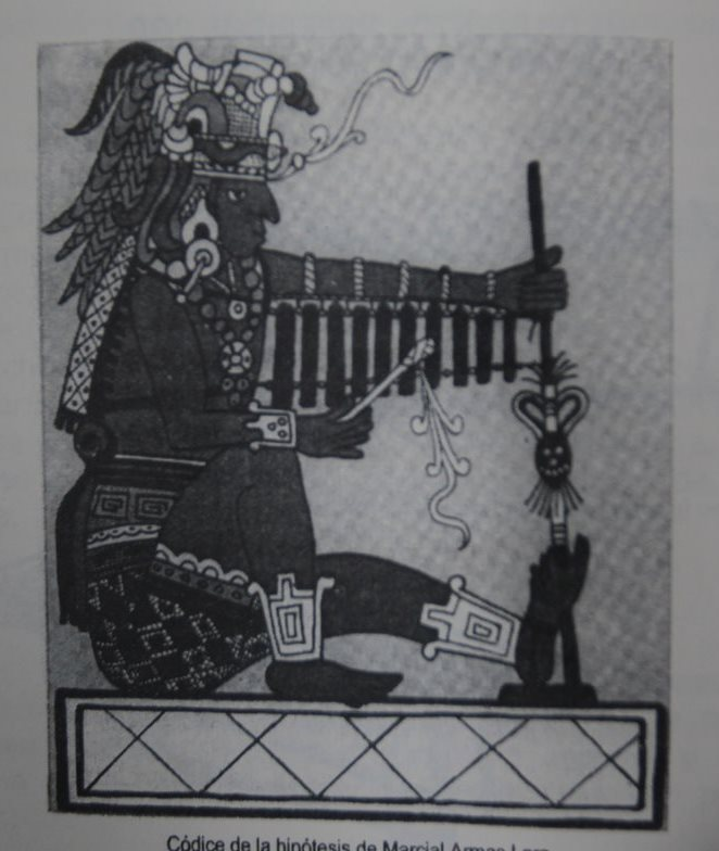 Mayan deity playing marimba-like musical instrument